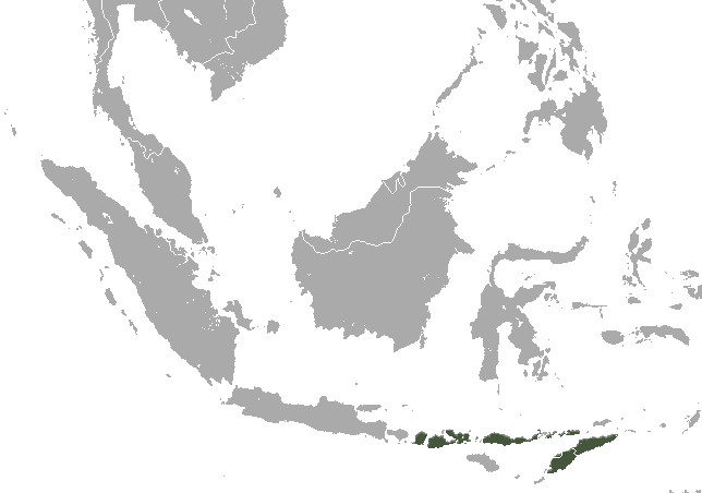 Lombok Flying Fox (Pteropus lombocensis) range